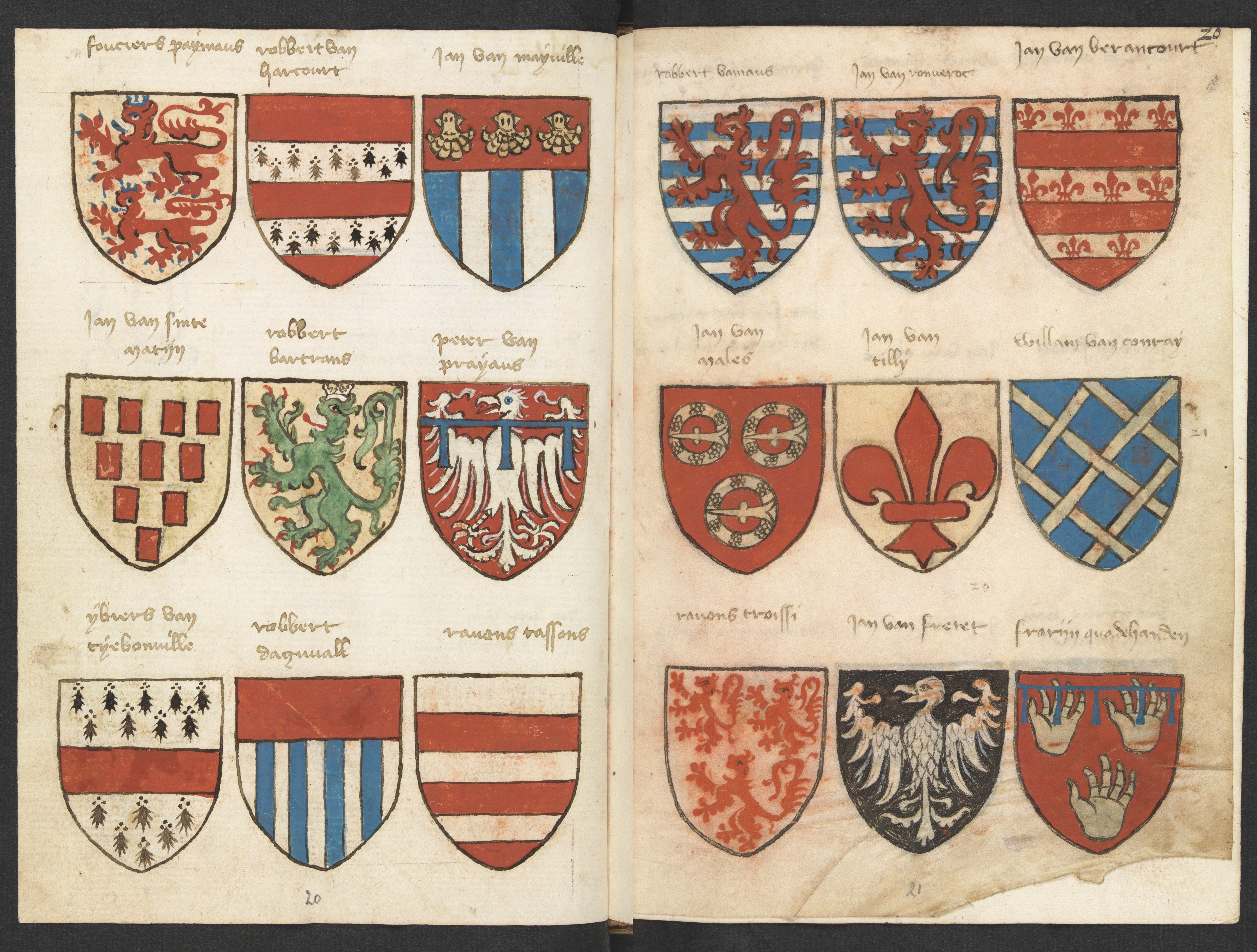 Lefthand side folio 019v; righthand side folio 020r from the Beyeren armorial / Wapenboek Beyeren